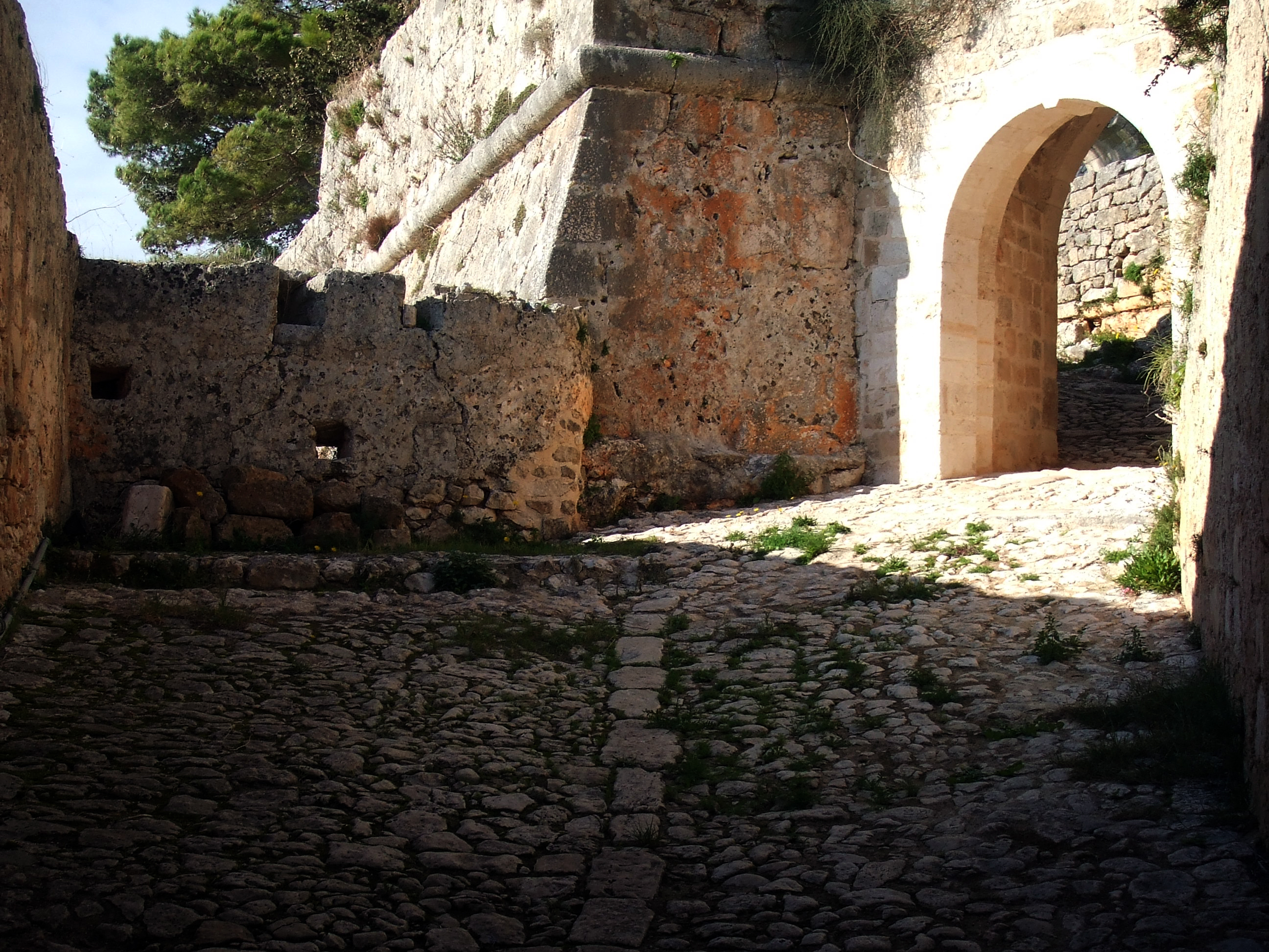 Venetian castle (Borgo) of Agios Georgios in Cefalonia. Photo:Christos V.